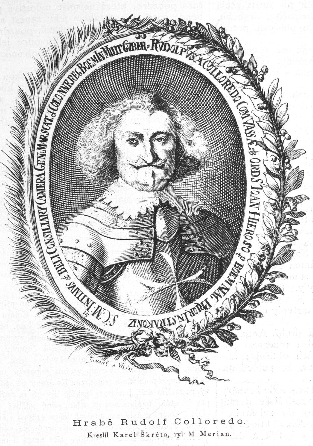 Portrait of Rudolf Colloredo (1585 - 1657), nobleman from Bohemia